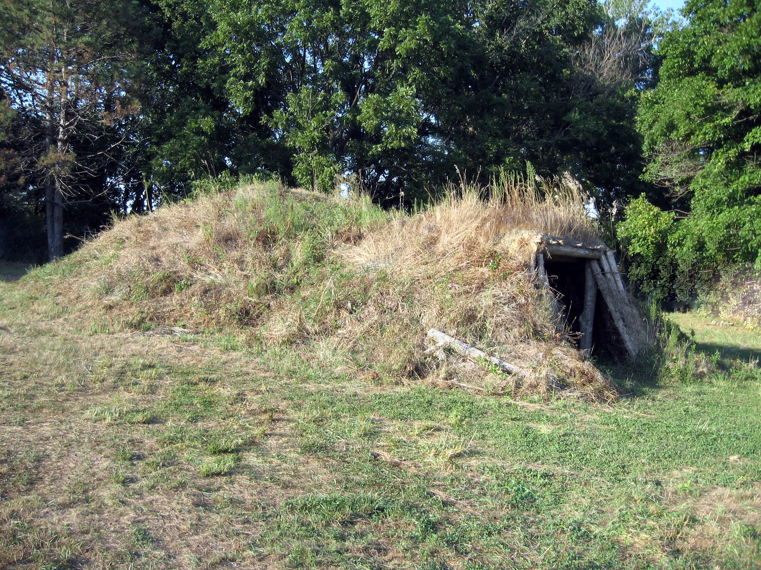 Reconstructed prehistoric (Pre-Columbian) earthlodge, Glenwood, Iowa.